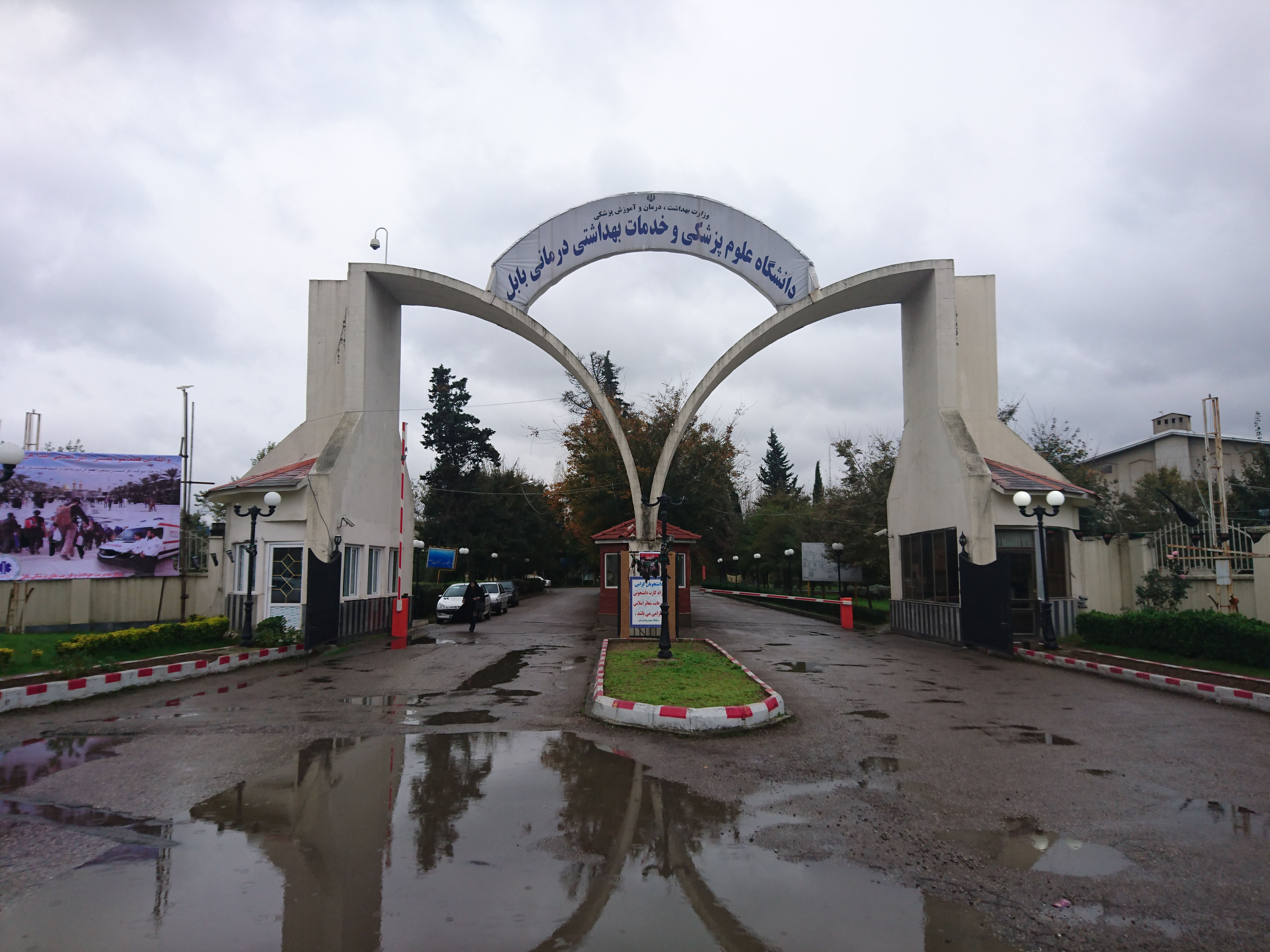 ورودی اصلی دانشگاه علوم بزشکی بابل